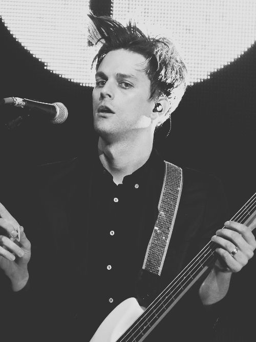 Bassist, Dallon weekes performing with Panic! at the Disco on the 'Save Rock and Roll Tour' in 2014